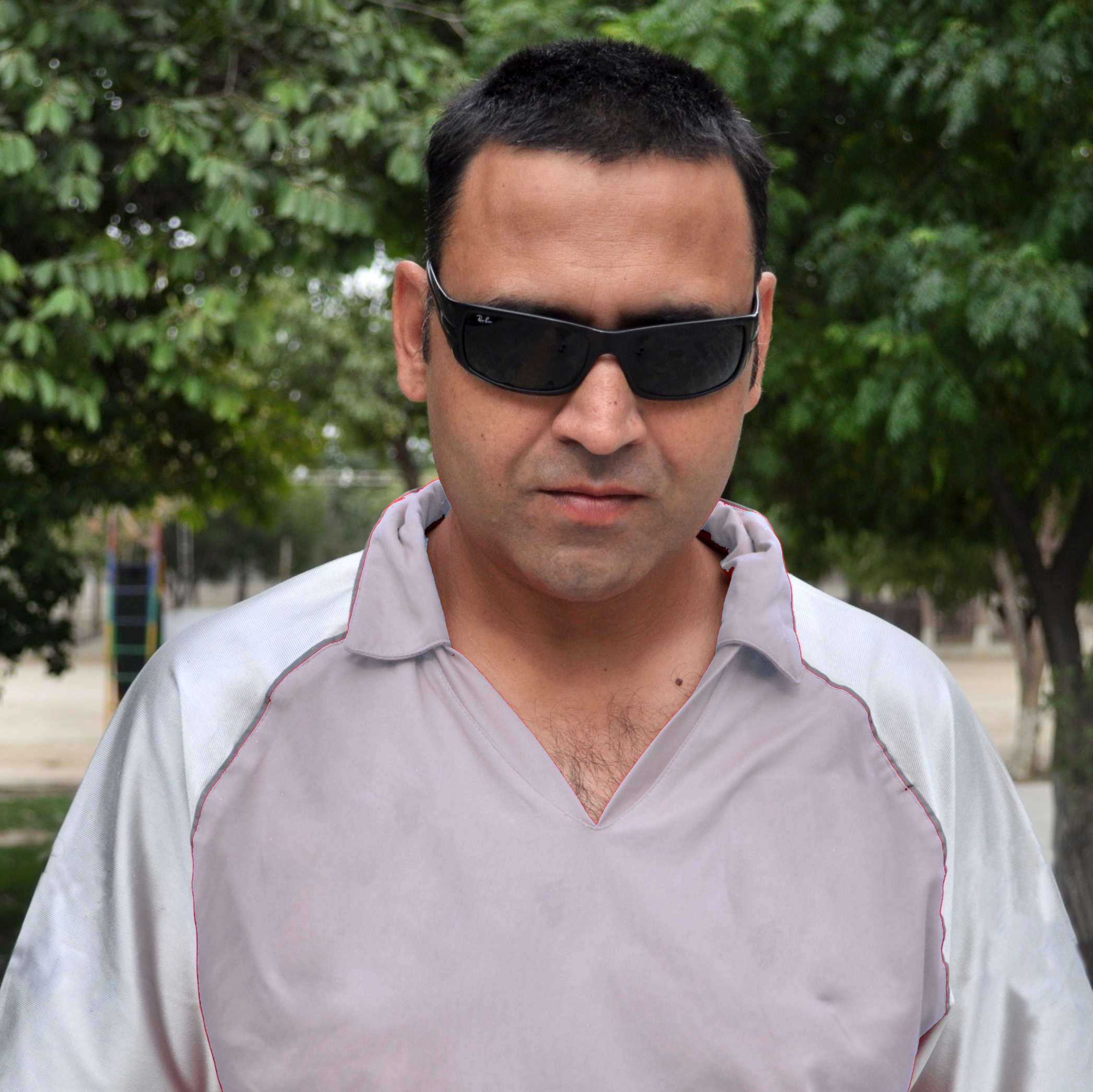 Theatre, television and film actor